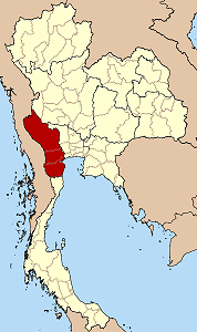 Map of Thailand highlighting the extent of the Roman Catholic diocese of Ratchaburi.